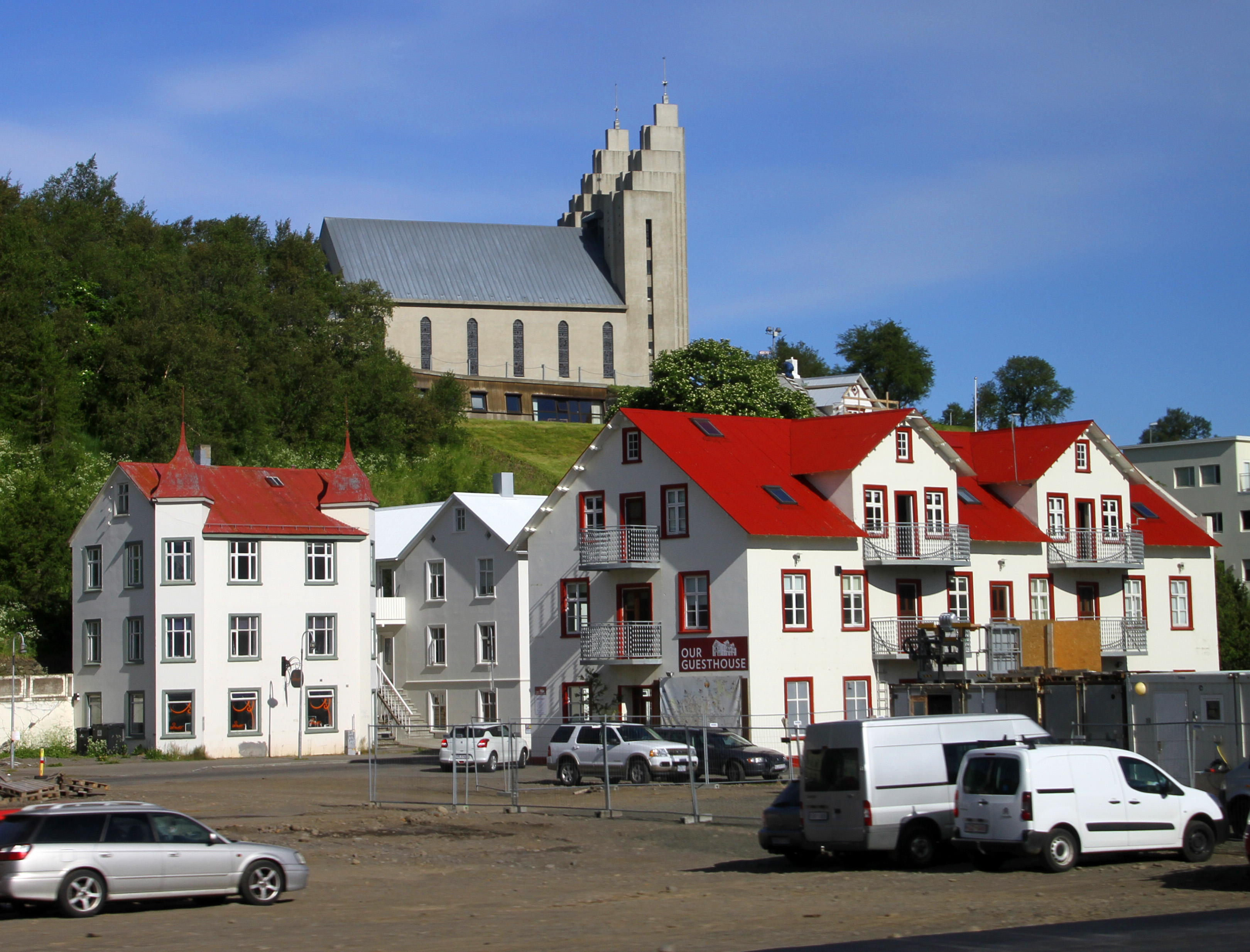 Akureyri in Iceland